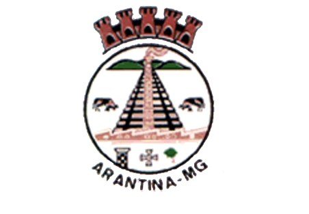 Flag of the city of Arantina Minas Gerais, Brazil